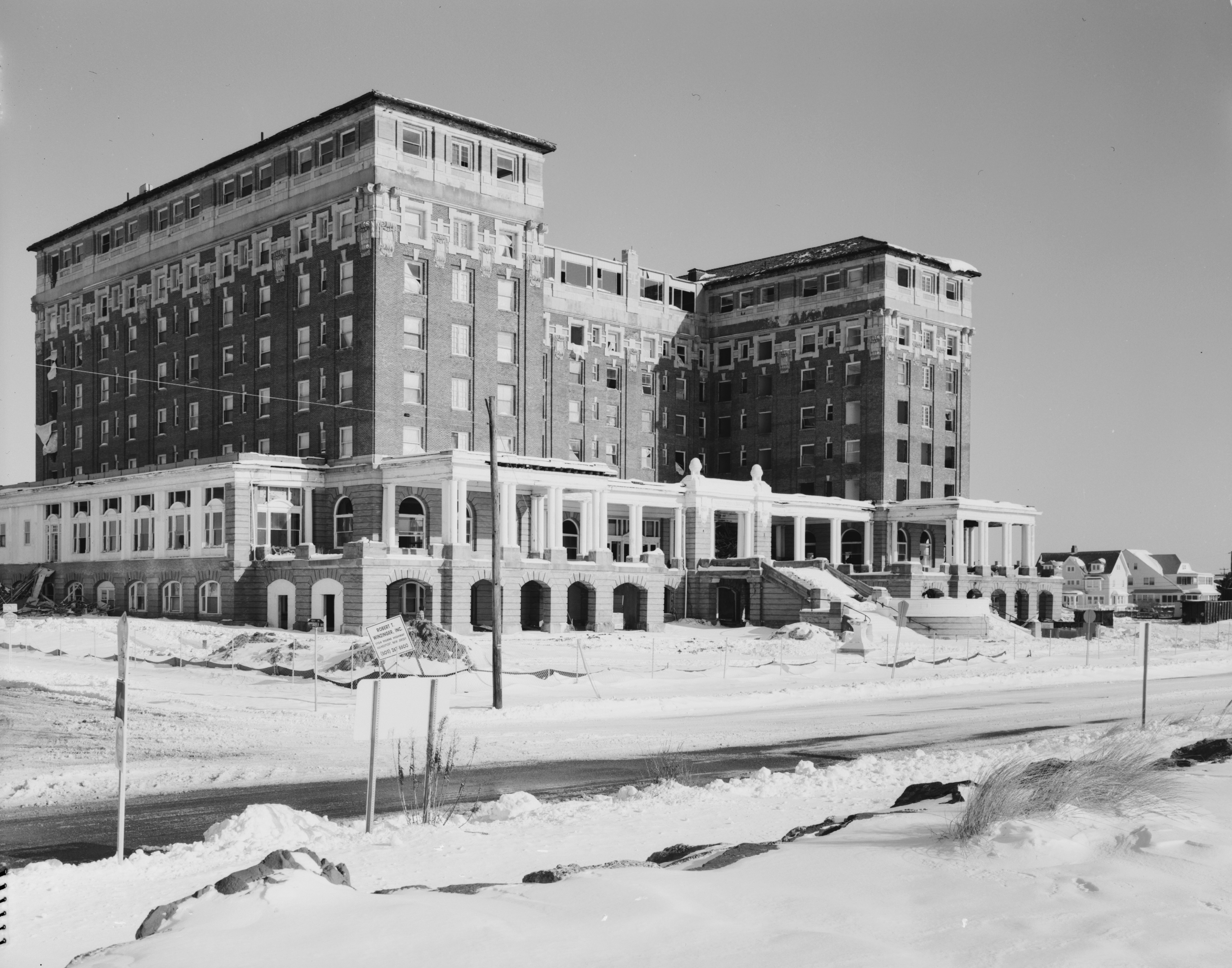 Christian Admiral Hotel, 1401 Beach Avenue, Cape May, Cape May, NJ, aka Cape May Hotel HABS NJ,5-CAPMA,70- Survey number HABS NJ-1228 Building/structure dates: 1906 initial construction Building/structure dates: 1995 demolished National Register of Historic Places NRIS Number: 70000383 Significance: The Cape May Hotel was constructed in 1908 as the anchor for an ambitious real estate venture to create a new town in East Cape May to replace the aging center. The development was designed to rejuvenate the city's flagging reputation (in decline since the 1880s and 90s) and stimulate the economy still suffering the effects of the depression of 1894. With 350 guestrooms, the hotel was the largest in Cape May and the finest on the Jersey shore. It boasted central heating, electric lighting throughout and completely fireproof construction-- purportedly the first such hotel in the world. - Historic American Buildings Survey (Library of Congress) Rev. Carl McIntire's organization purchased the historic Admiral Hotel in 1962, and founded the Christian Admiral Bible Conference and Freedom Center. The name of the hotel was changed to "Christian Admiral".